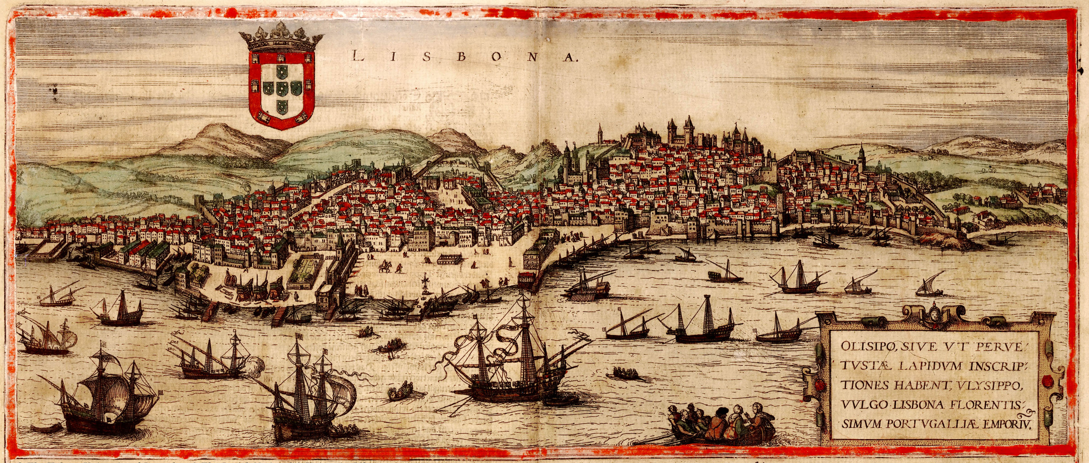 Lisbona - bird's-eye view of the city of Lisbon (Portugal) from Georg Braun and Frans Hogenberg's atlas Civitates orbis terrarum, vol. I, 1572